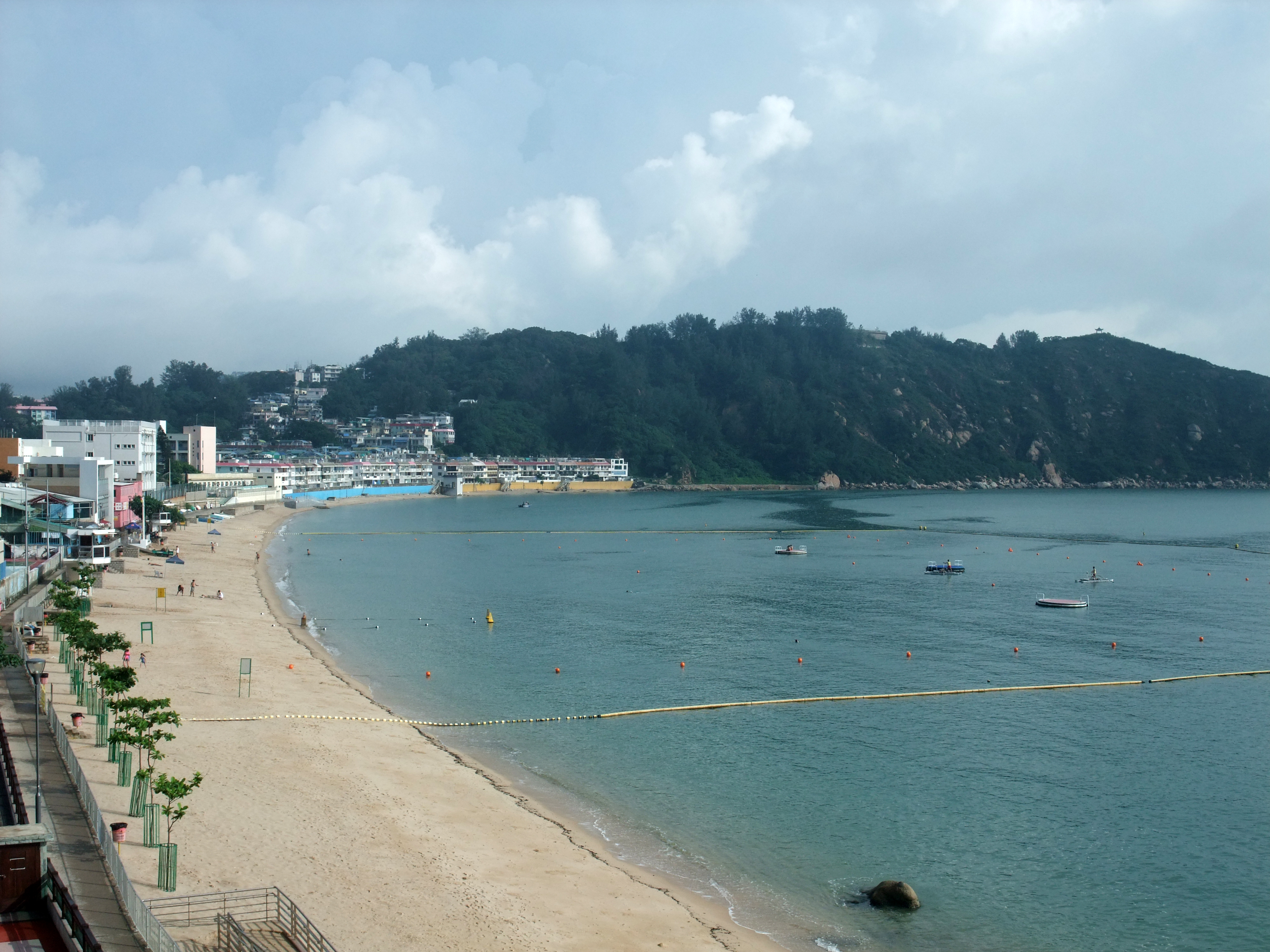 Photo of Cheung Chau Tung Wan Beach